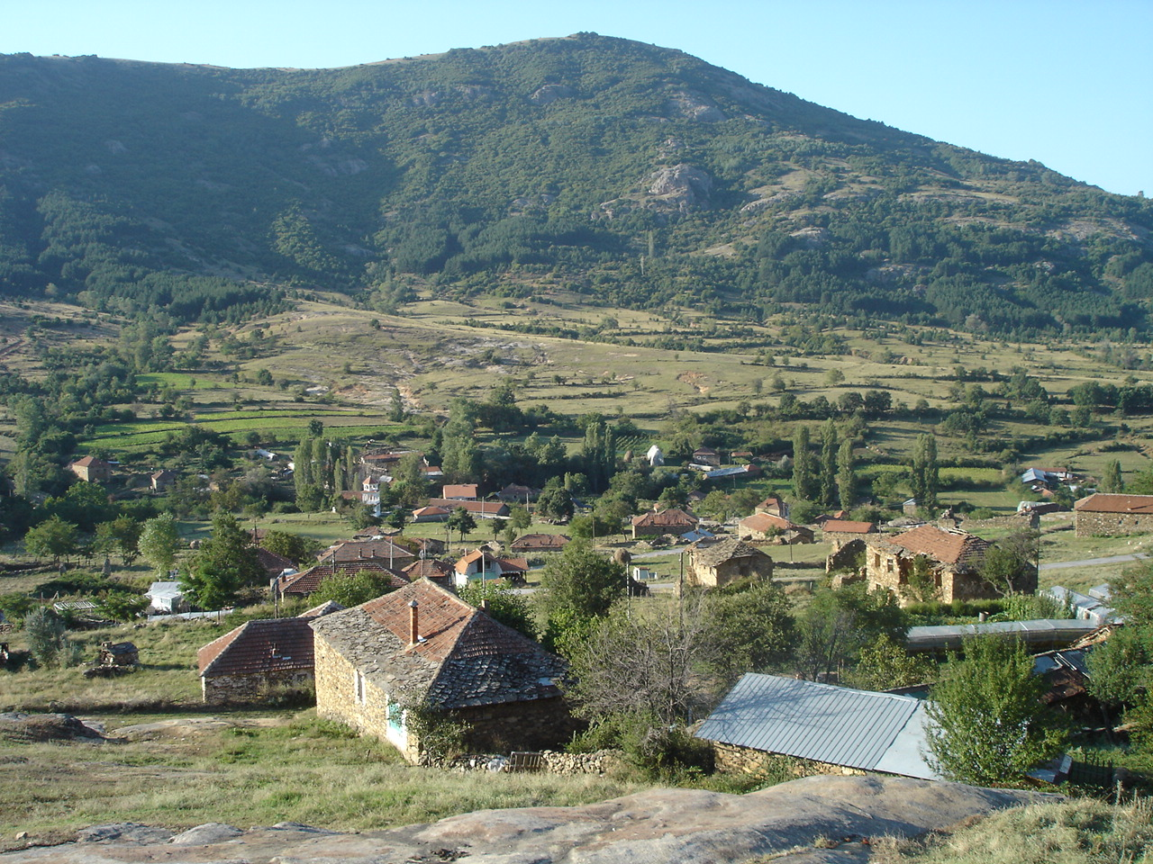 village Shtavica, near Prilep, Macedonia